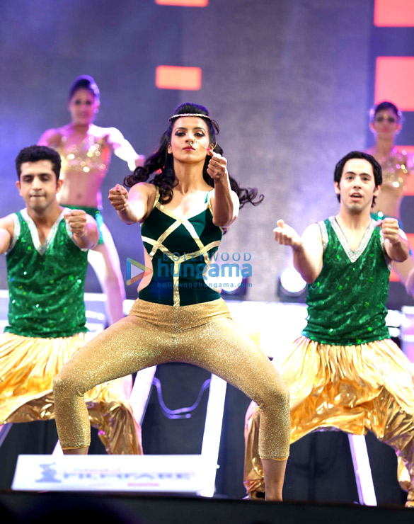 Actress Sruthi Hariharan performing at the 61st Filmfare South Awards